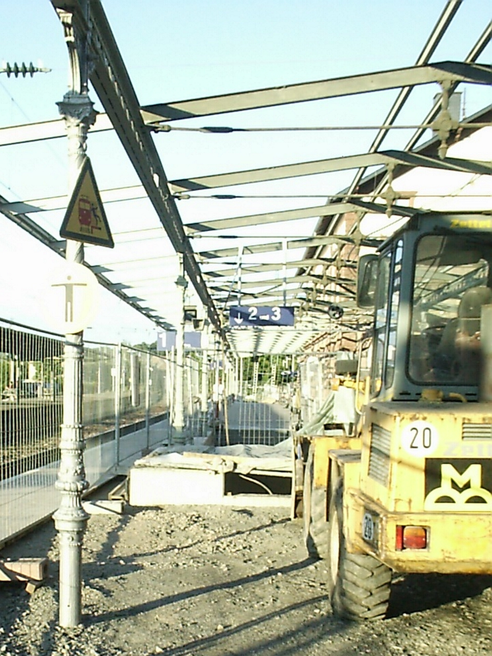 Bahnhofsvordach St. Ingbert im Bau/porch of the railway station St. Ingbert, Germany under construction